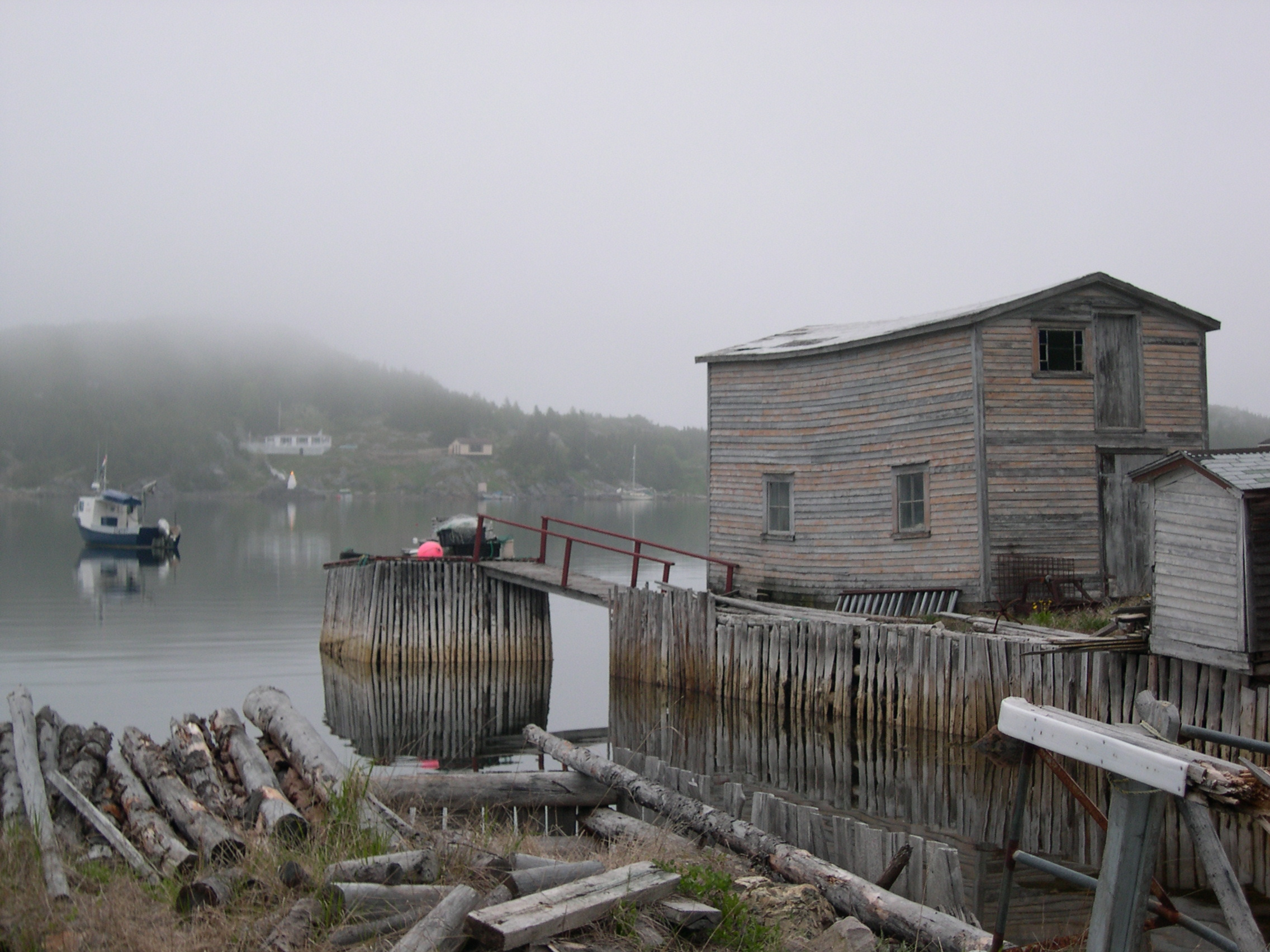 Lockes' Stage on Little Bay Islands, Newfoundland and Labrador, Canada